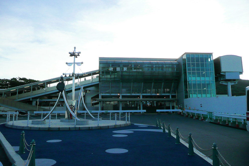 Kanda Station, Kanda Town, Fukuoka, Japan